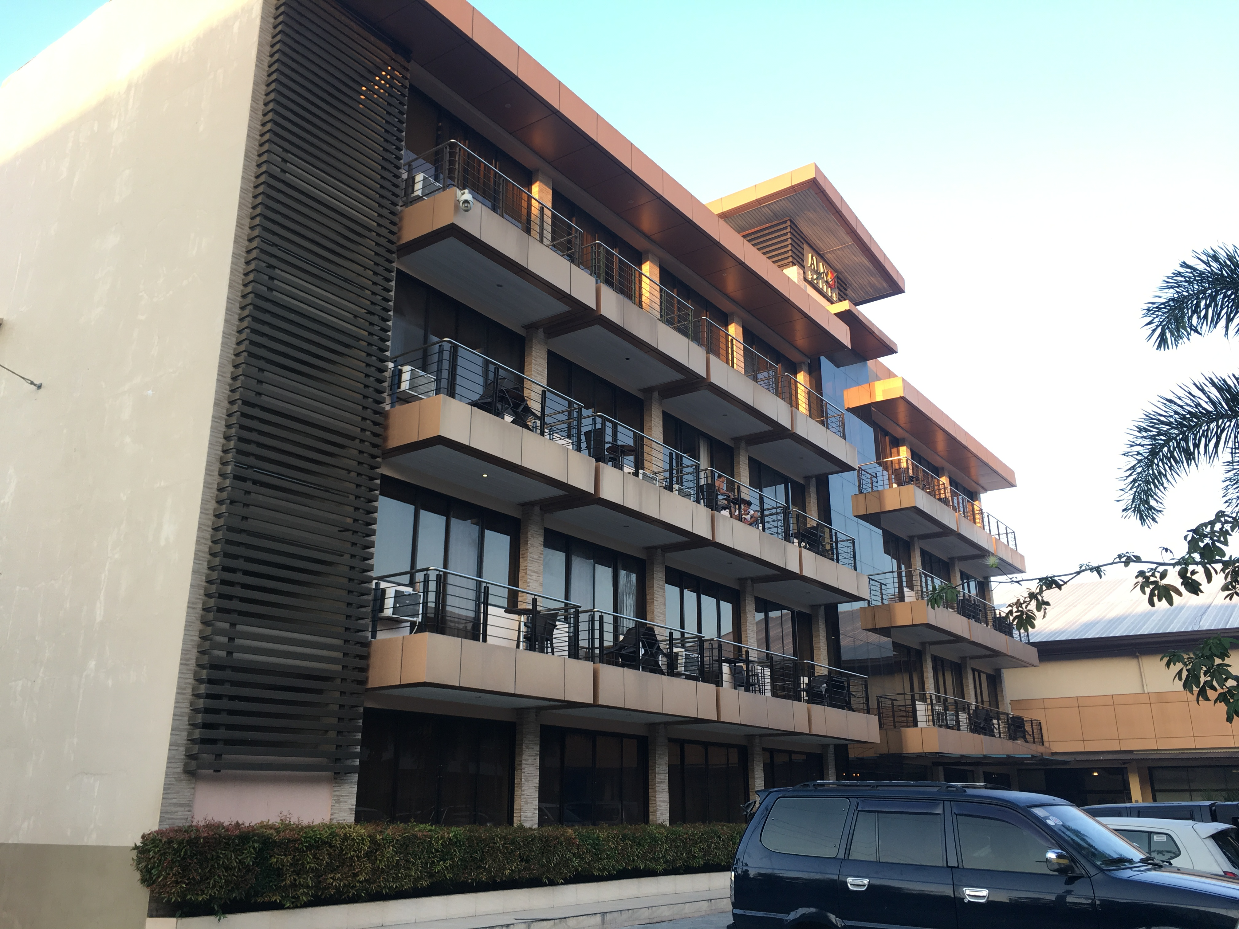 Alnor Hotel Suites Cotabato City